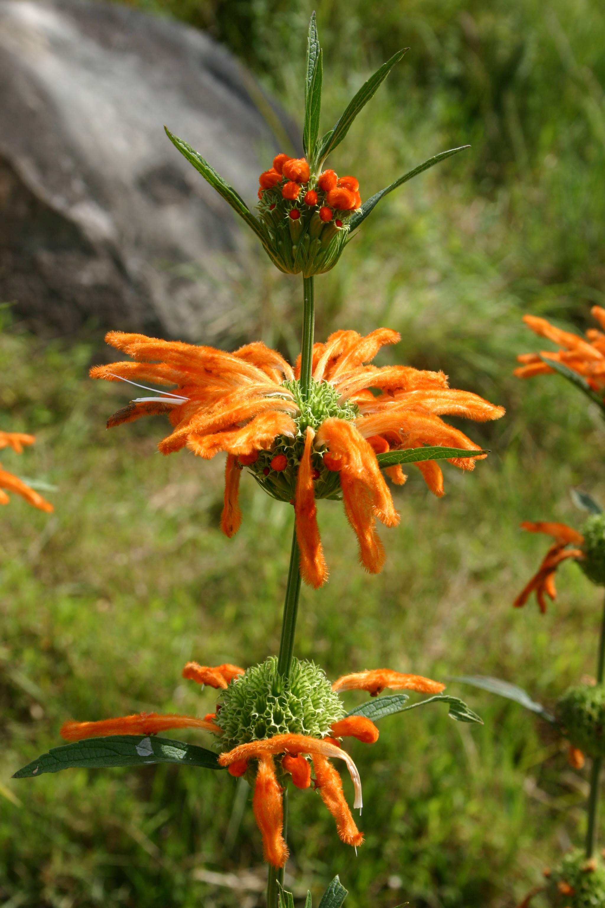 Leonotis leonurus (L.) R.Br., Monk's Cowl area, Natal Drakensberg, South Africa